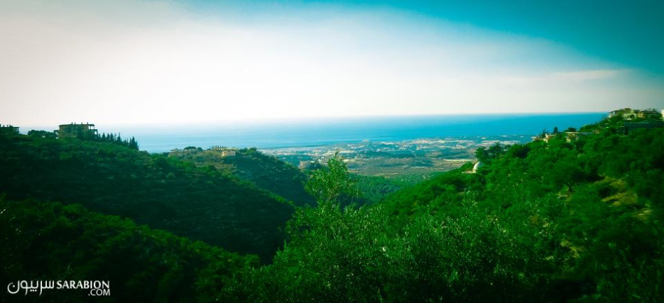 All neighborhoods of the Village have a charming view to the Mediterranean Sea